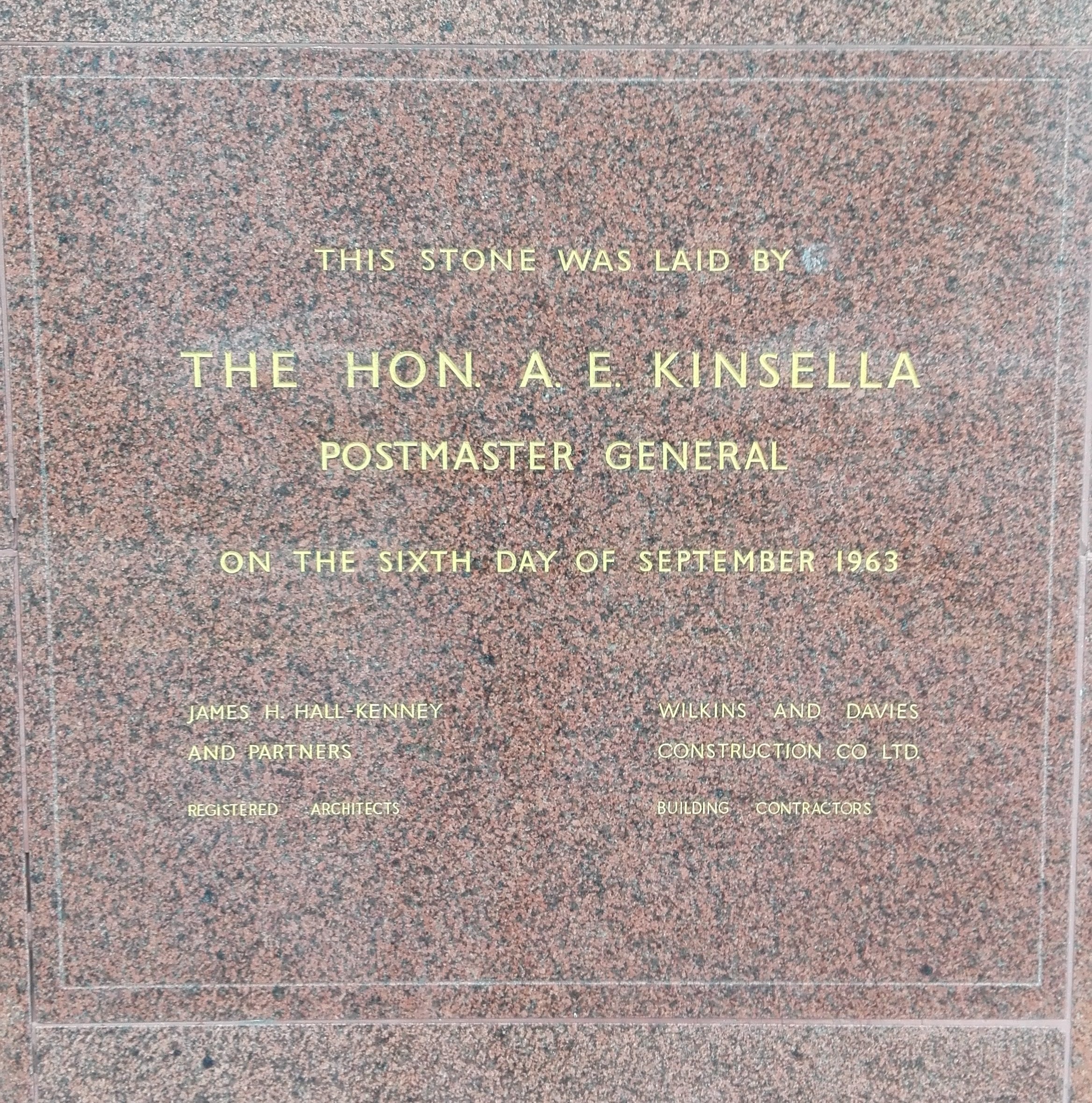 Plaque outside a former Post Office building on Cambridge Terrace, Wellington.